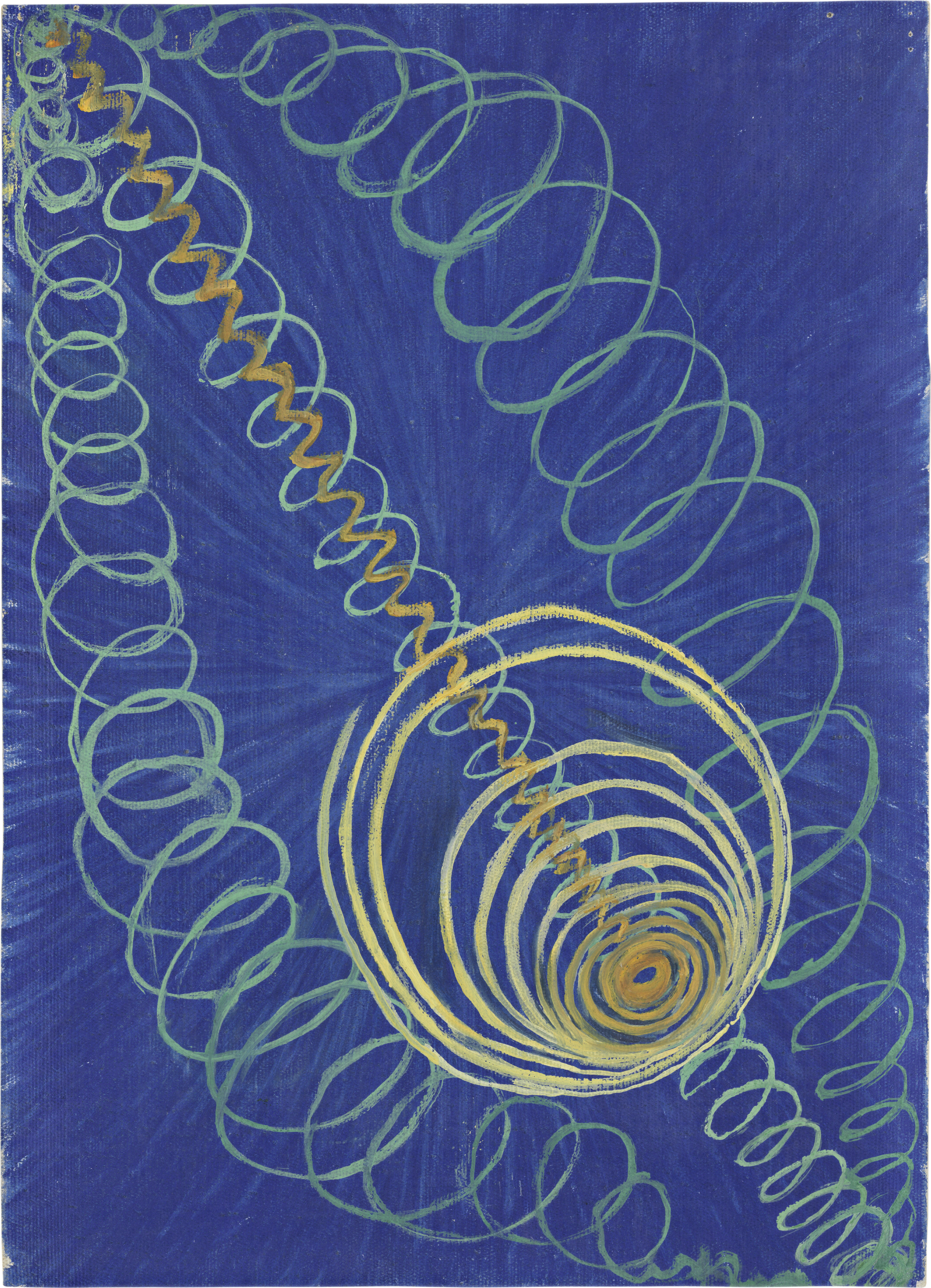 Hilma af Klint, Primordial Chaos, No. 16, The WU/ROSEN Series. Grupp 1, 1906-07